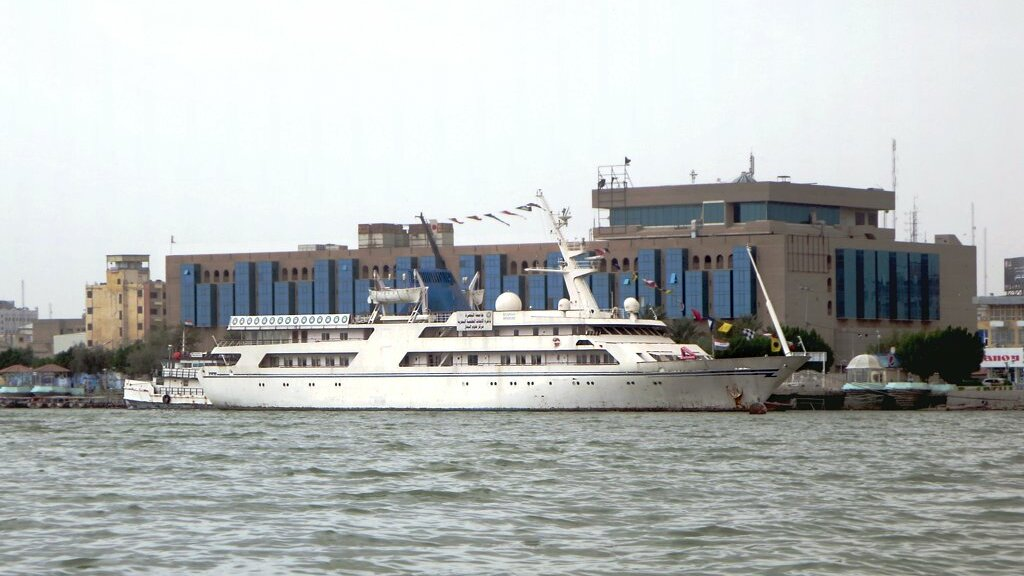 Saddam Hussein's former super yacht, the Basra Breeze, often ties up in front of the Basra International Hotel (a former Sheraton) on banks of the Shatt Al Arab River in Basra, Iraq.